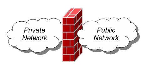 Firewall separating zones of trust